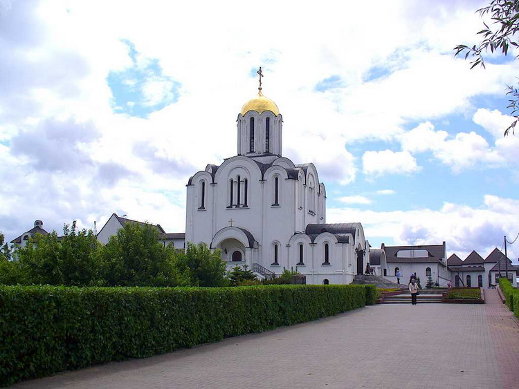 Church of St. Yevfrosinya of Polotsk, Minsk